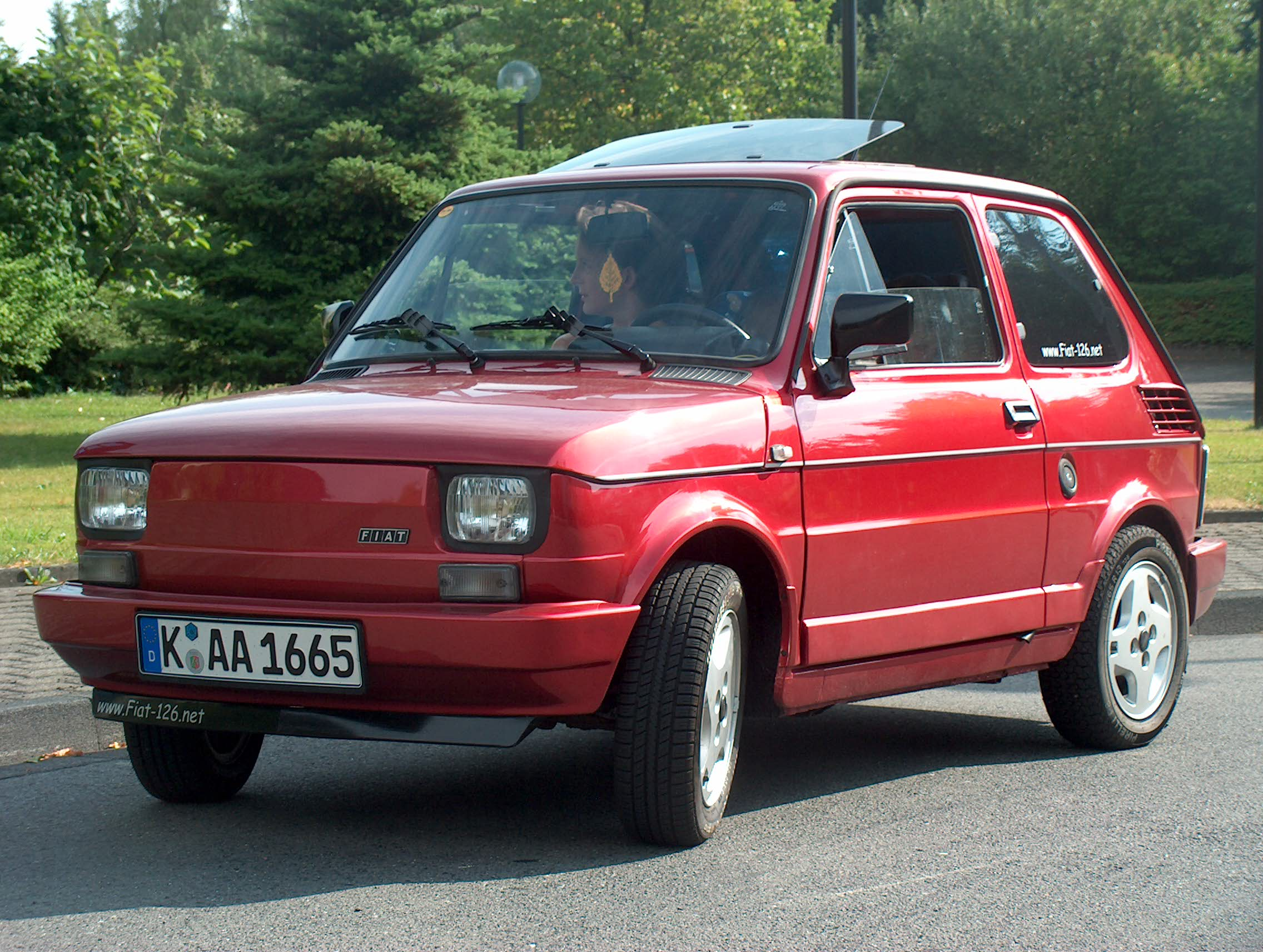 Fiat 126 BIS made by Fabryka Samochodów Małolitrażowych in Bielsko-Biała, Poland.